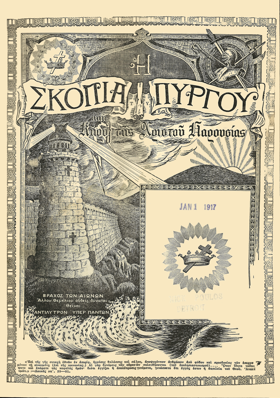 Cover of the January 1st, 1917 issue of the Greek edition of the Watch Tower (Η Σκοπιά του Πύργου) magazine.